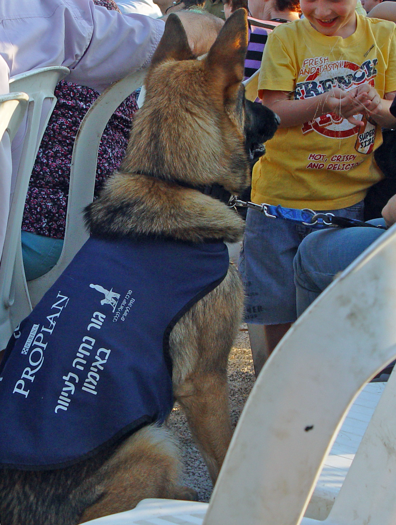 Training guide dog puppy in Israel